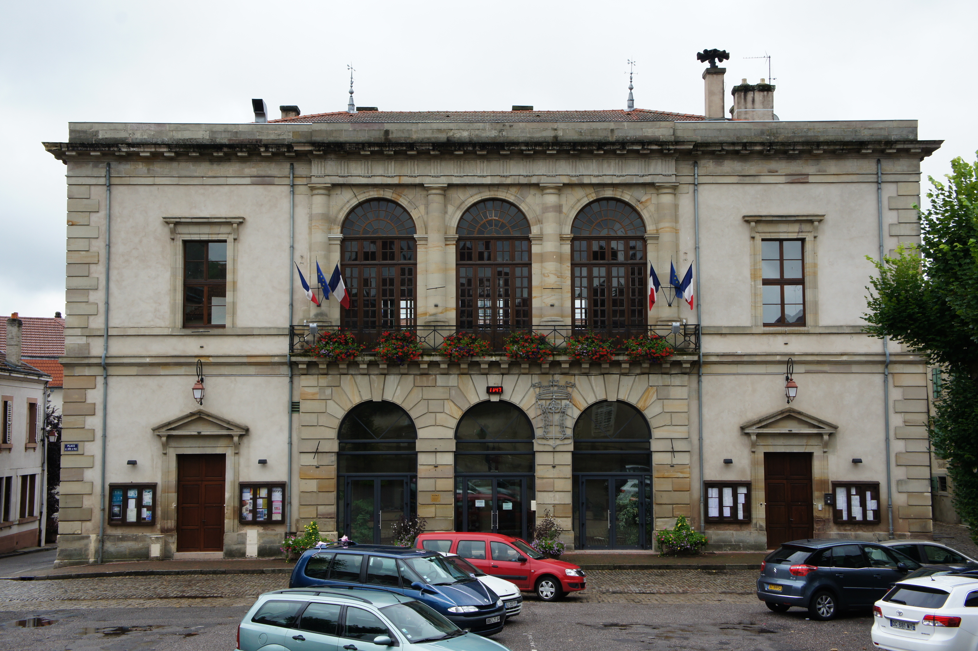 Town hall of Blâmont, Lorraine, France.